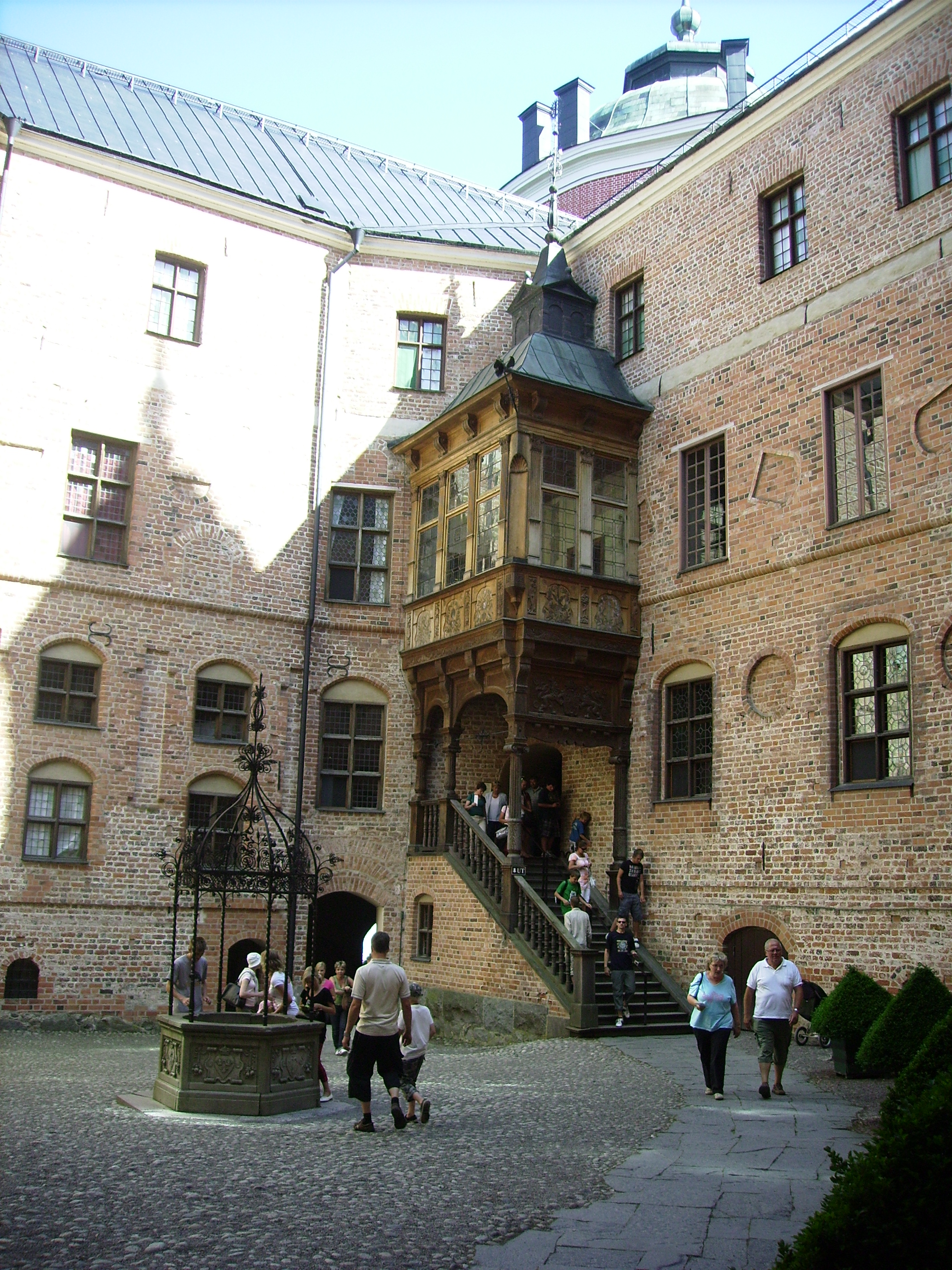 Picture of Gripsholm